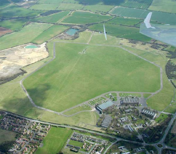 Aerial photograph of Bicester Airfield, Oxfordshire